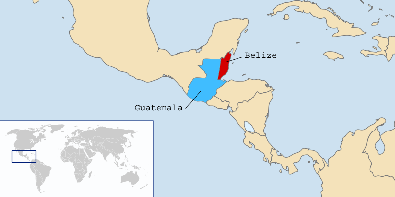 Map of Central America displaying Belize (red) and Guatemala (blue)